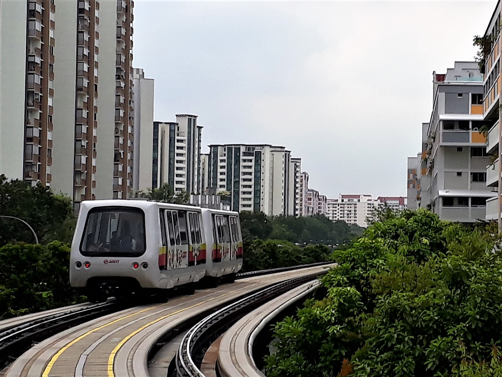 C801A leaving Teck Whye